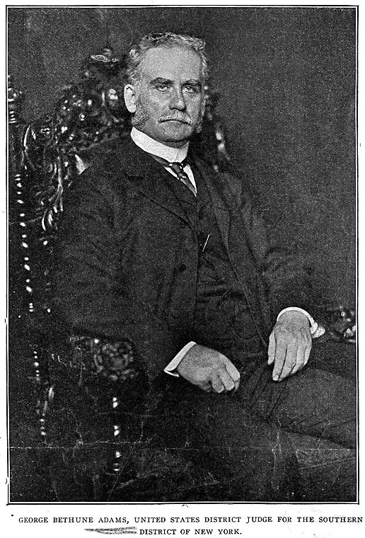 George Bethune Adams, United States District Judge